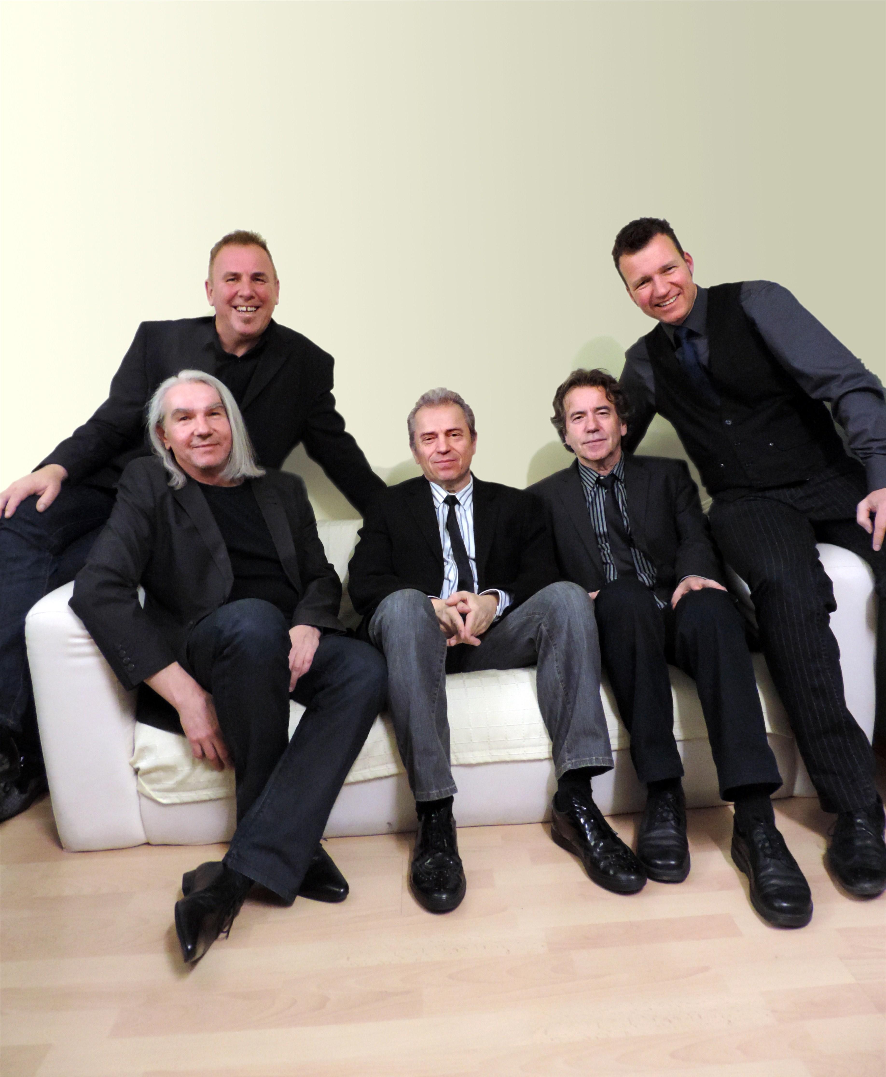 Guenther Sigl & Band